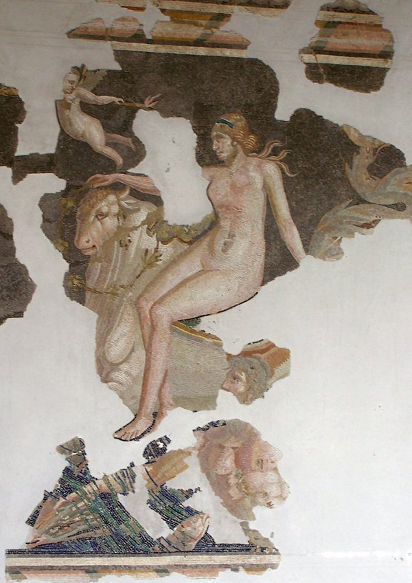 Roman mosaic about the rape of Europa. Museo archeologico, Aquileia – Italy.